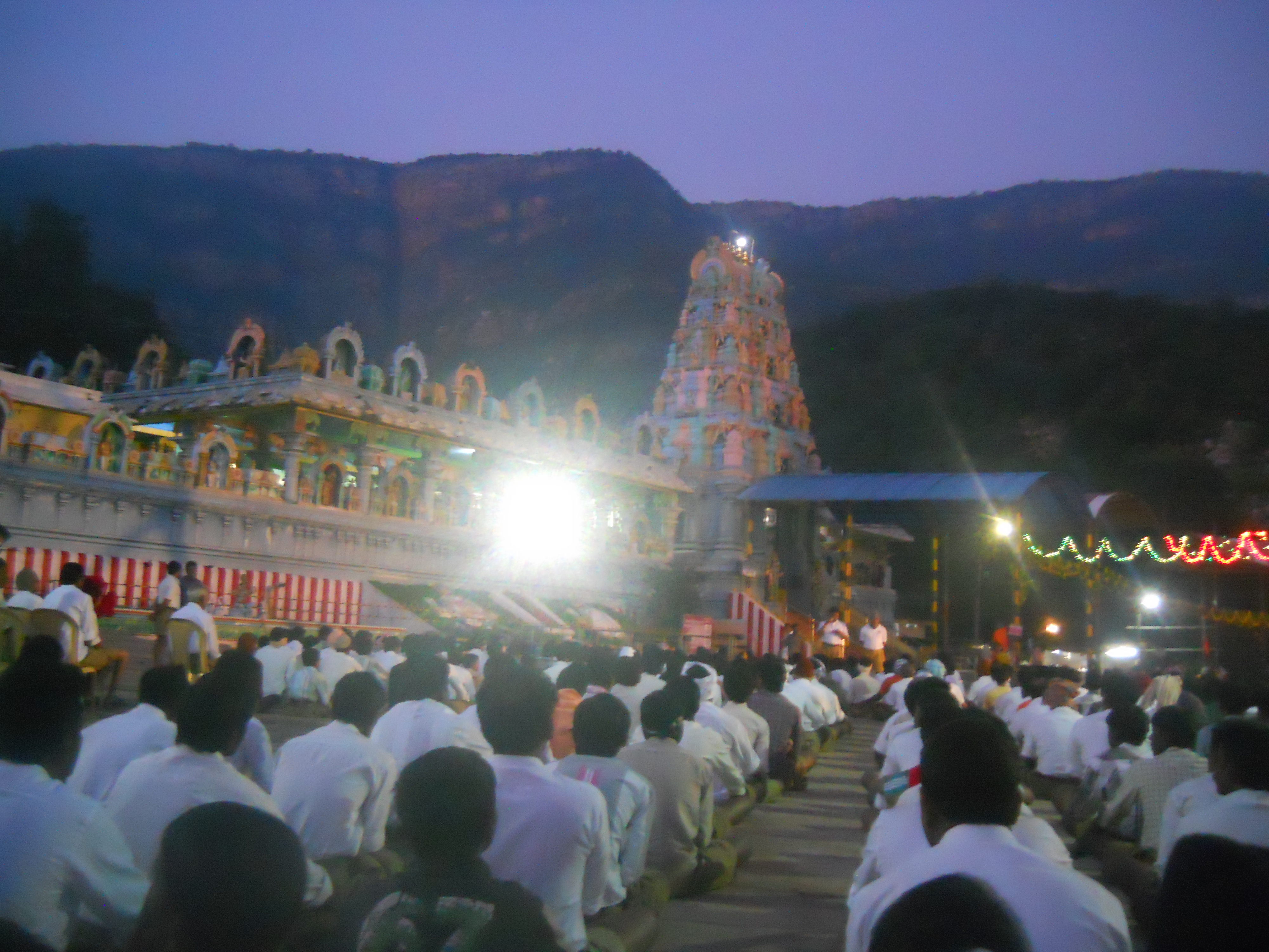 Rashtriya Swayamsevak Sangh Program at Penchalakona